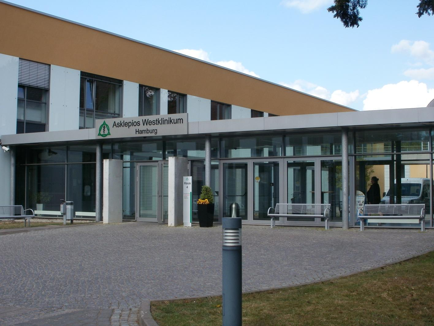 The Asklepius-Westklinikum-Hamburg is a hospital in Hamburg-Rissen, Germany.